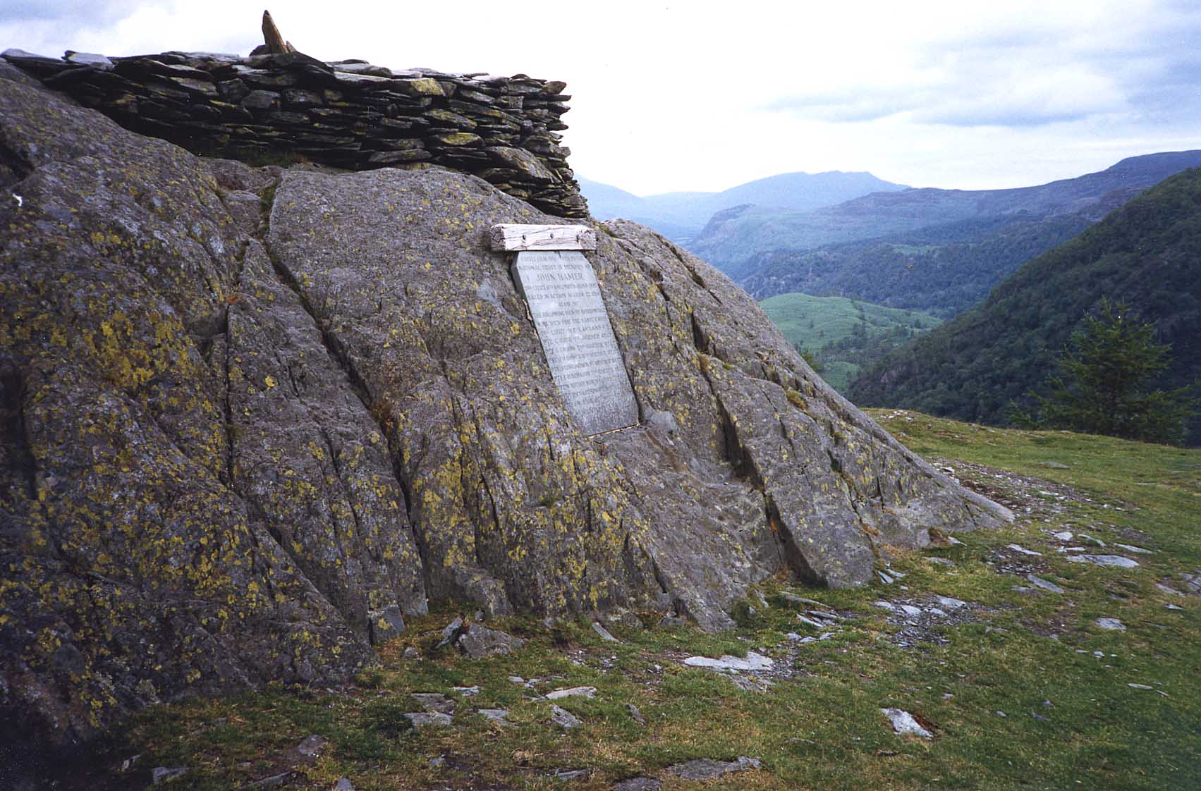 Personal picture taken by Mick Knapton